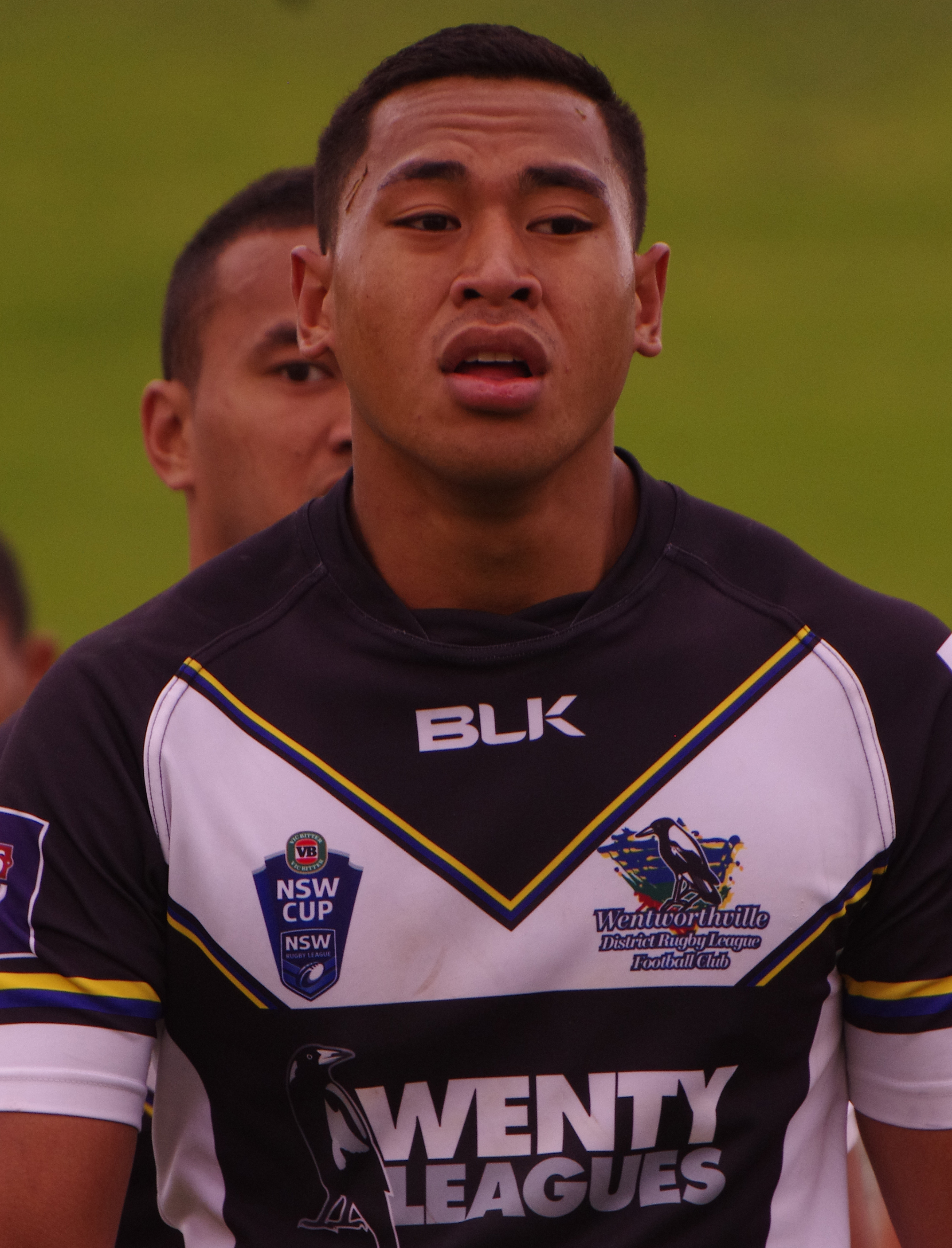 John Folau